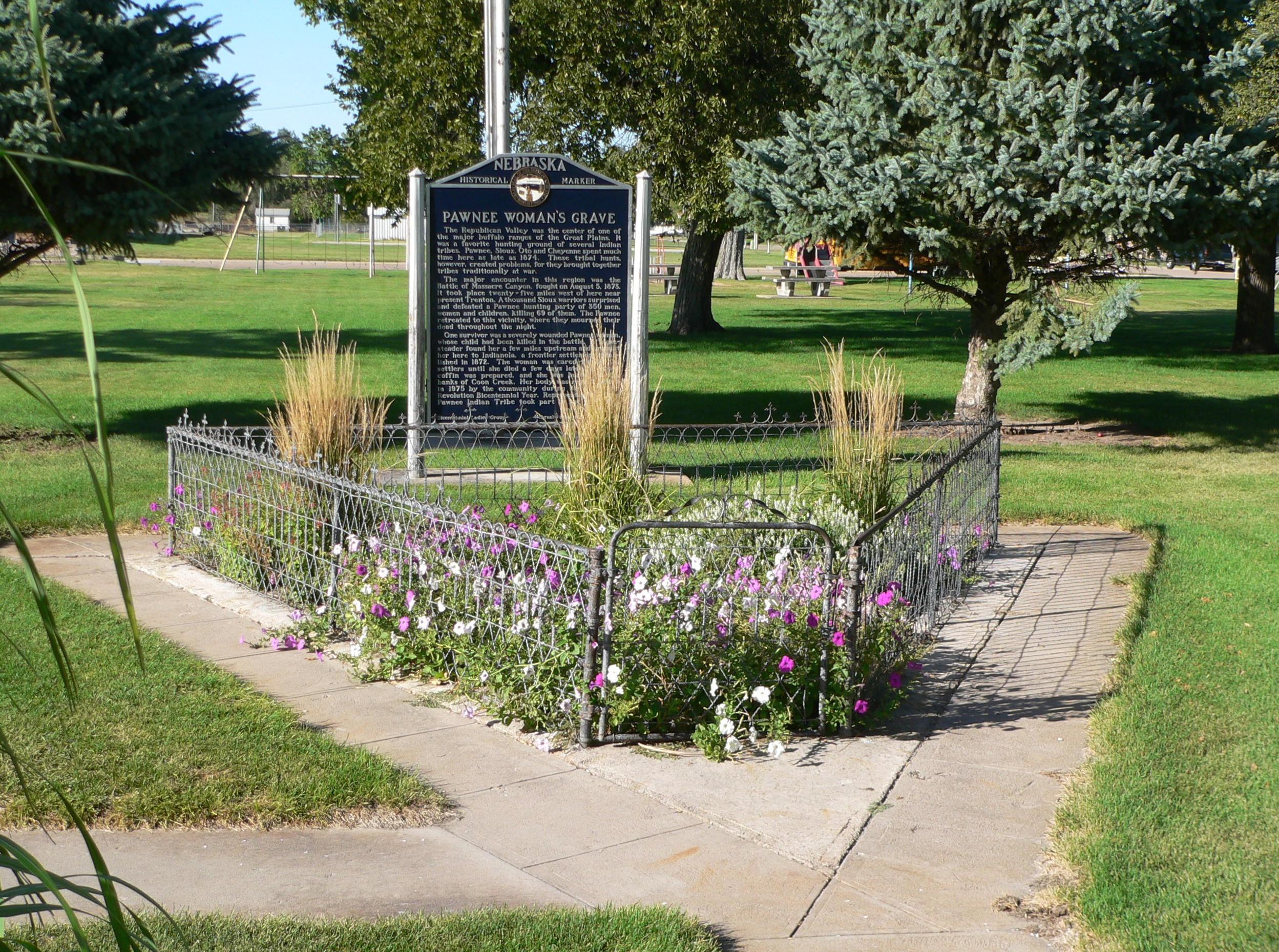 Park in Indianola, Nebraska. The blue sign is a Nebraska historical marker, commemorating the burial of a Pawnee woman who was fatally wounded in the 1873 battle with the Sioux at Massacre Canyon. Her grave is under the bed of purple and white flowers enclosed by the triangular fence in the foreground.